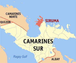 Map of Camarines Sur showing the location of Siruma